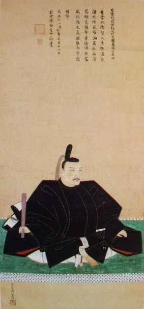 Hōjō Ujimasa. Odawara Hojo 4th generation